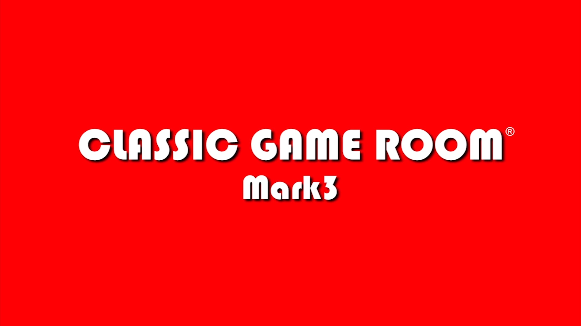 Current Classic Game Room title card as of 2016.